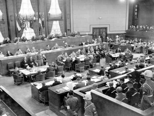 The International Military Tribunal for the Far East, 1946.